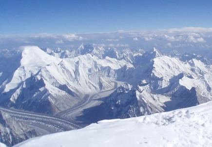 Chogolisa (left) seen from top of K2